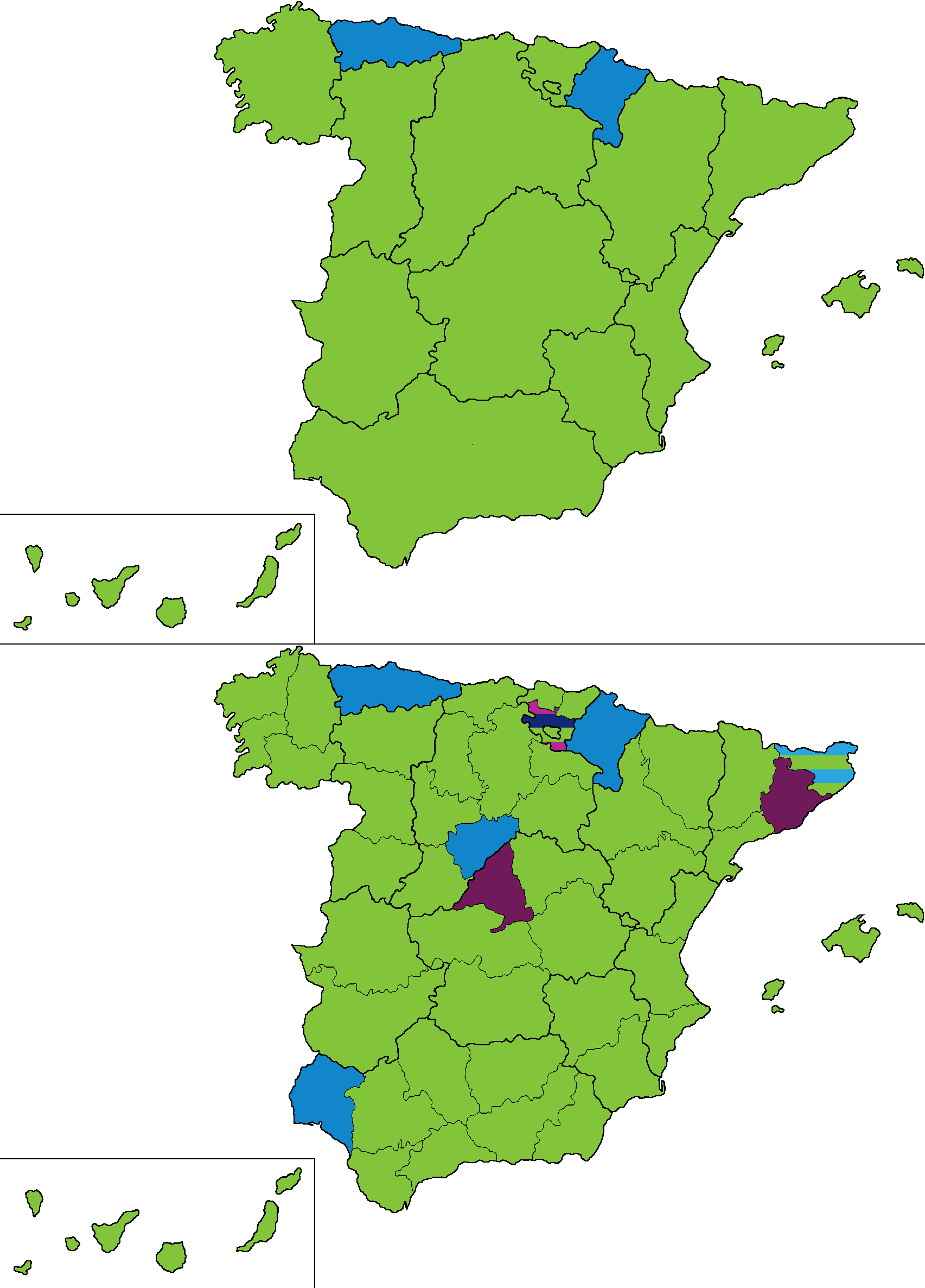 Most voted party in the 1893 Spanish Congress of Deputies election by regions and provinces.